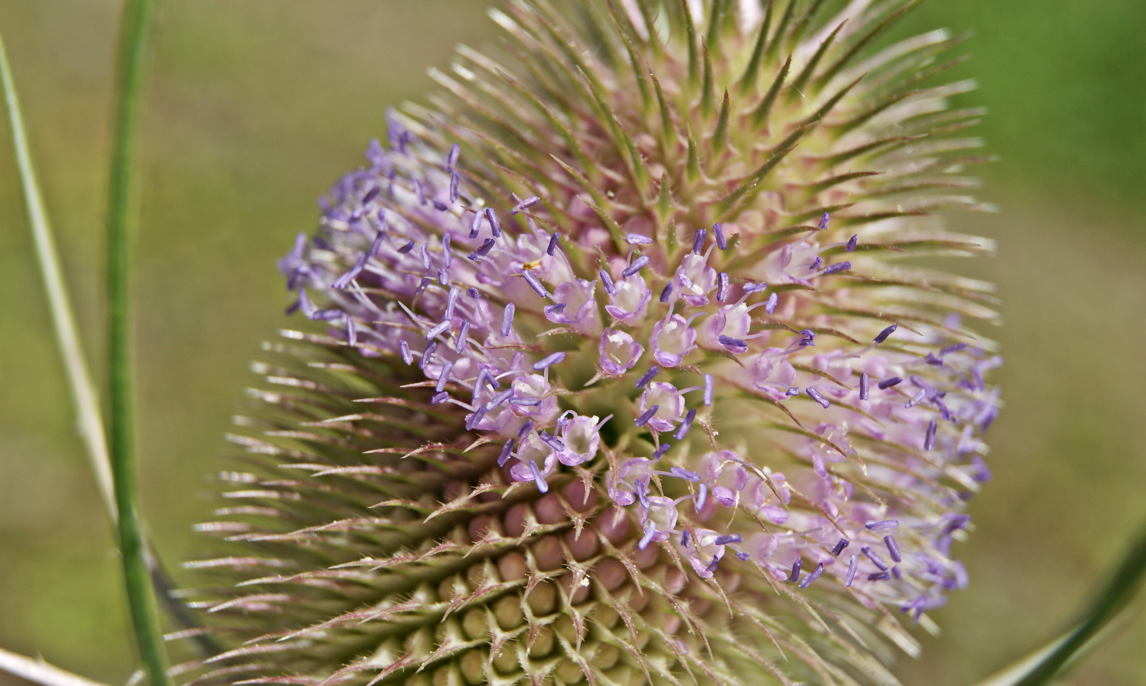 Dipsacus fullonum, 57258 Freudenberg, Germany.